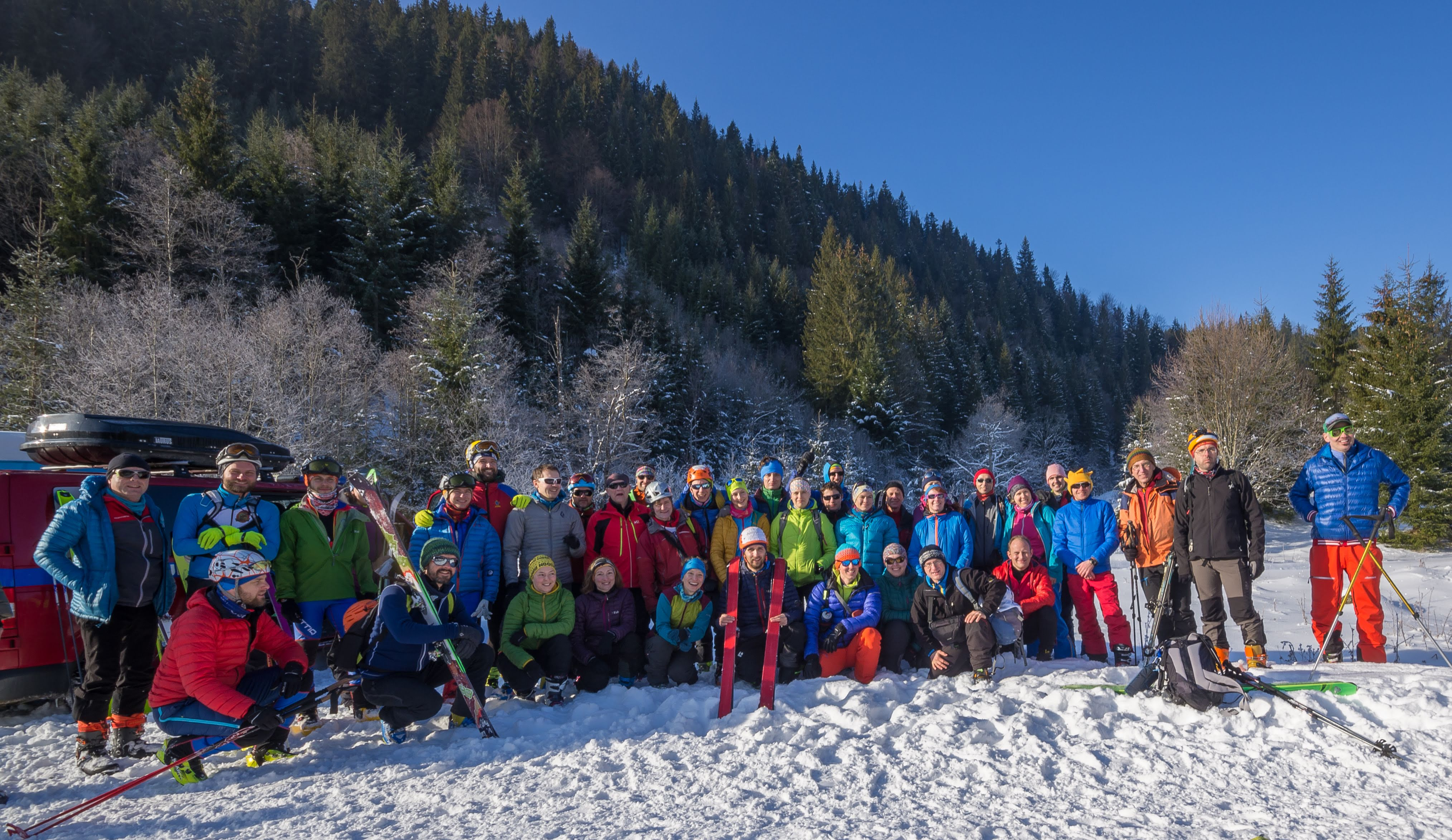 Лижники з Польщі перед стартом